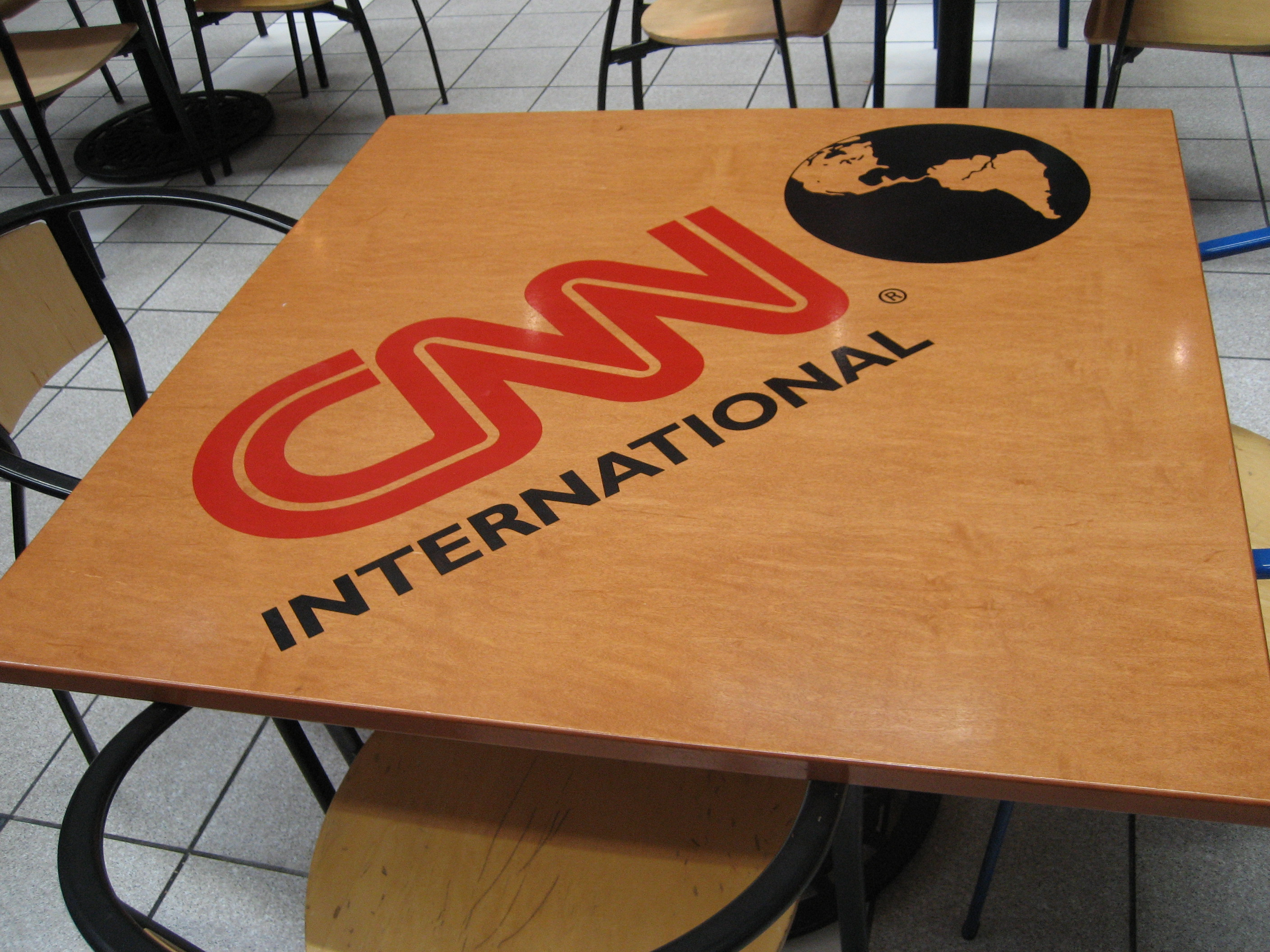 CNN International logo on a table in the main atrium of Atlanta's CNN Center.